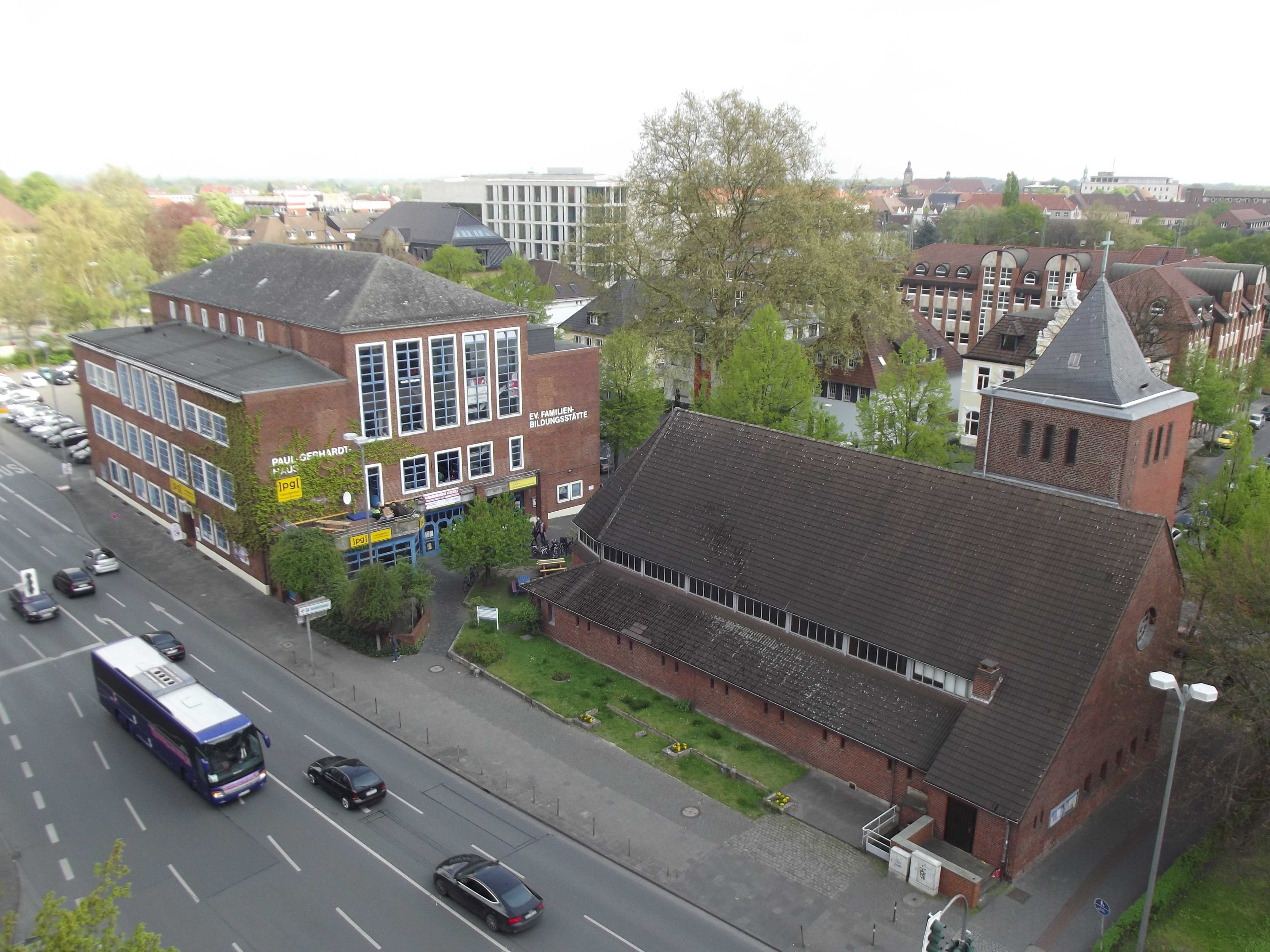 My second pic of the Paul Gerhard house in Münster, this one also showing the neighbouring Protestantic church